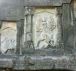 Carving on the wall of the Sibodol depicting the Hindu goddess Durga slaying the demon Mahishasura. The Sibodol was built by the Ahoms and is situated in Sibsagar, Assam on the banks of the Borpukhuri tank.